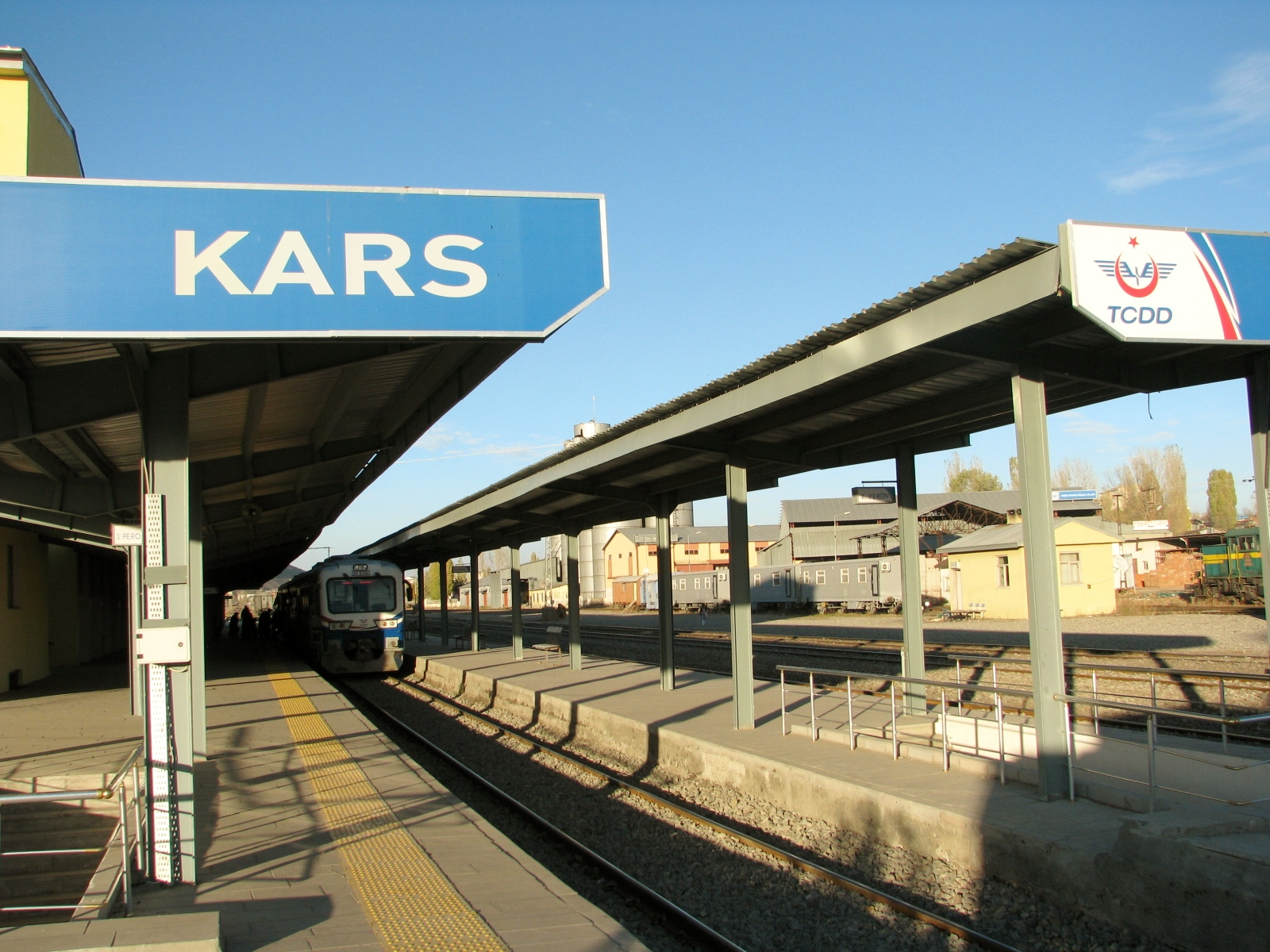 Kars Train Station